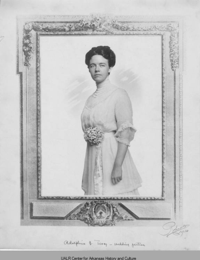 Published by the UALR Center for Arkansas History and Culture Fletcher-Terry Family Papers, 1826-1976 (UALR.MS.0018)